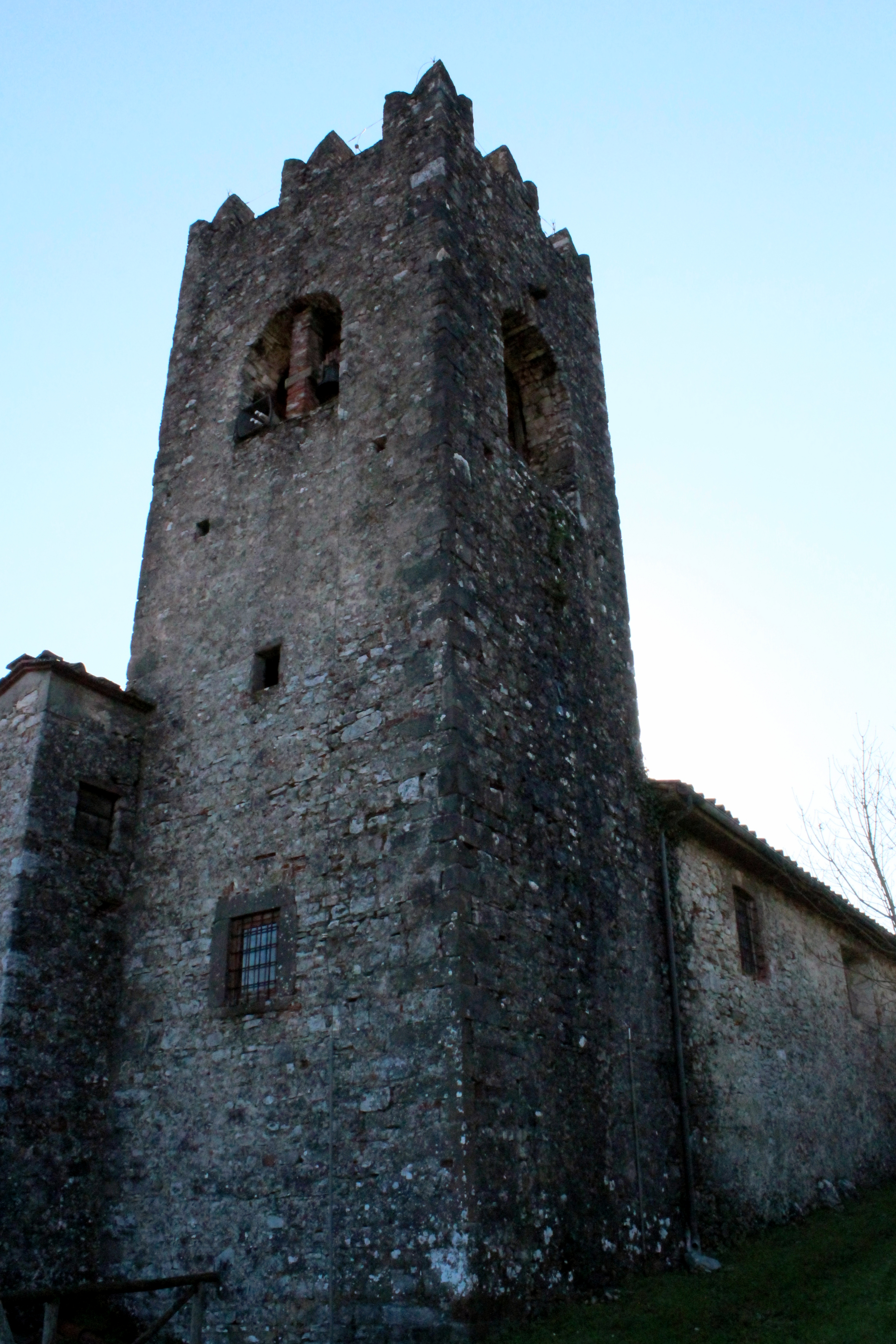 Campanile of the Church Santa Maria Assunta in Rocca, hamlet of Borgo a Mozzano, Province of Lucca, Tuscany, Italy